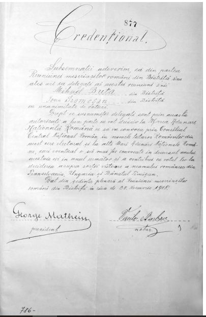 Mandate of the Romanian Craftsmen's Association of Bistrița, in which it says that the Romanian politician Ioan Someșan was elected, on 28th of november 1918, deputy in the Great National Assembly from Alba Iulia, Romania, 1918Română: Credenționalul Reuniunii meseriașilor români din Bistrița, în care scrie ca Ioan Someșan a fost ales, la data de 28 noiembrie 1918, deputat în Marea Adunare Națională de la Alba Iulia, 1918